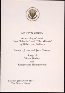 White House entertainment program, January 29, 1957, during Eisenhower's presidency, featuring Martyn Green, Shirley Jones and Jack Cassidy.